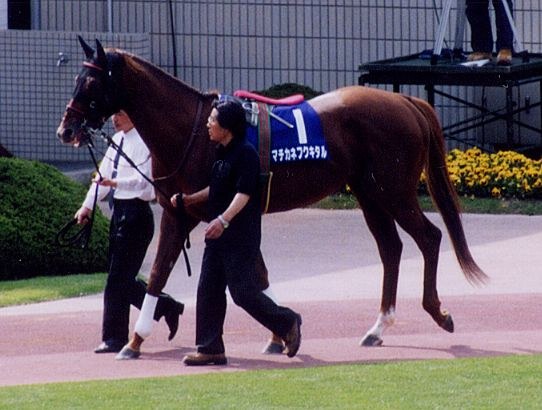 Matinanefukukitaru